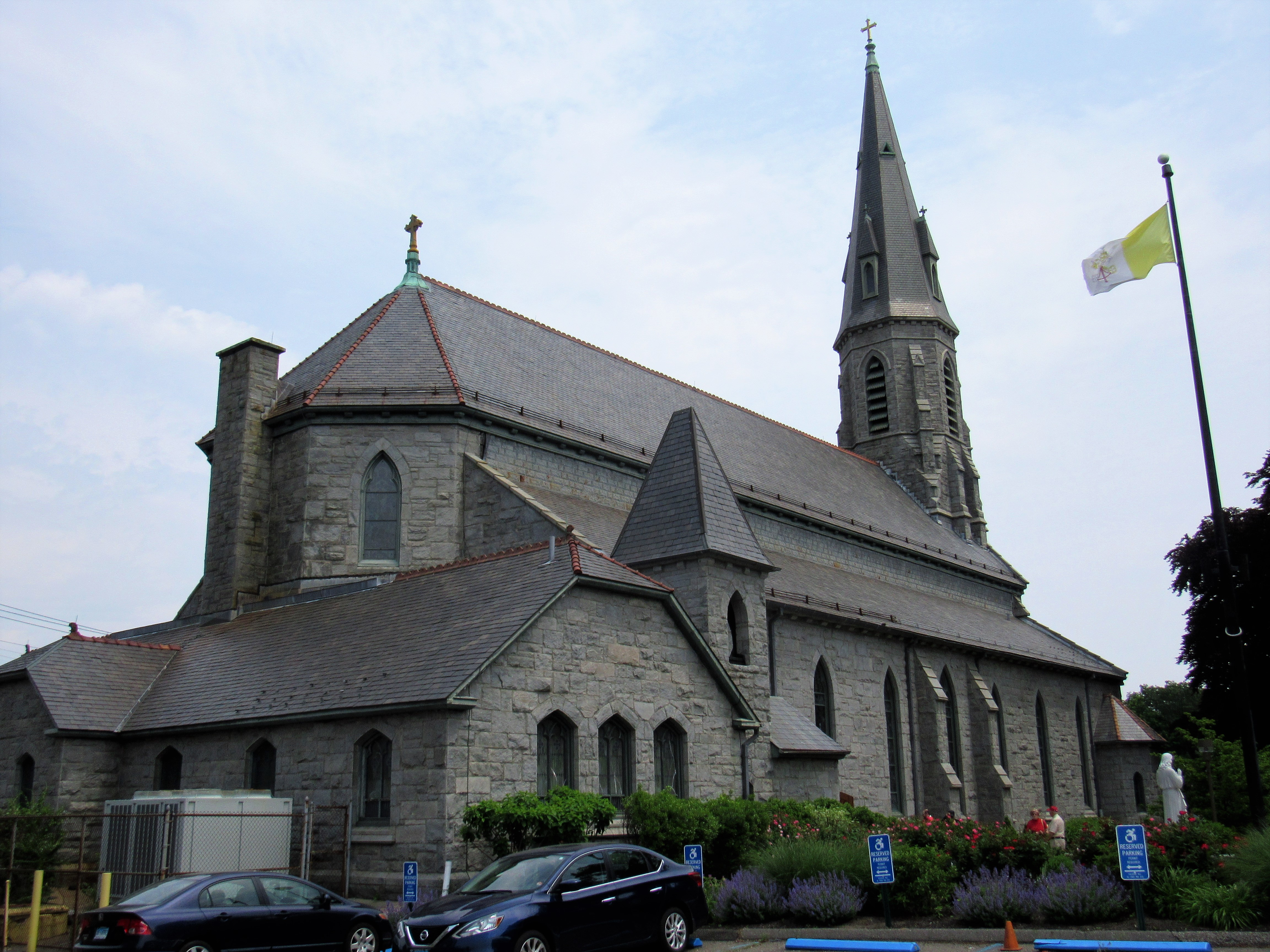 St. Augustine Cathedral in Bridgeport, Connecticut.